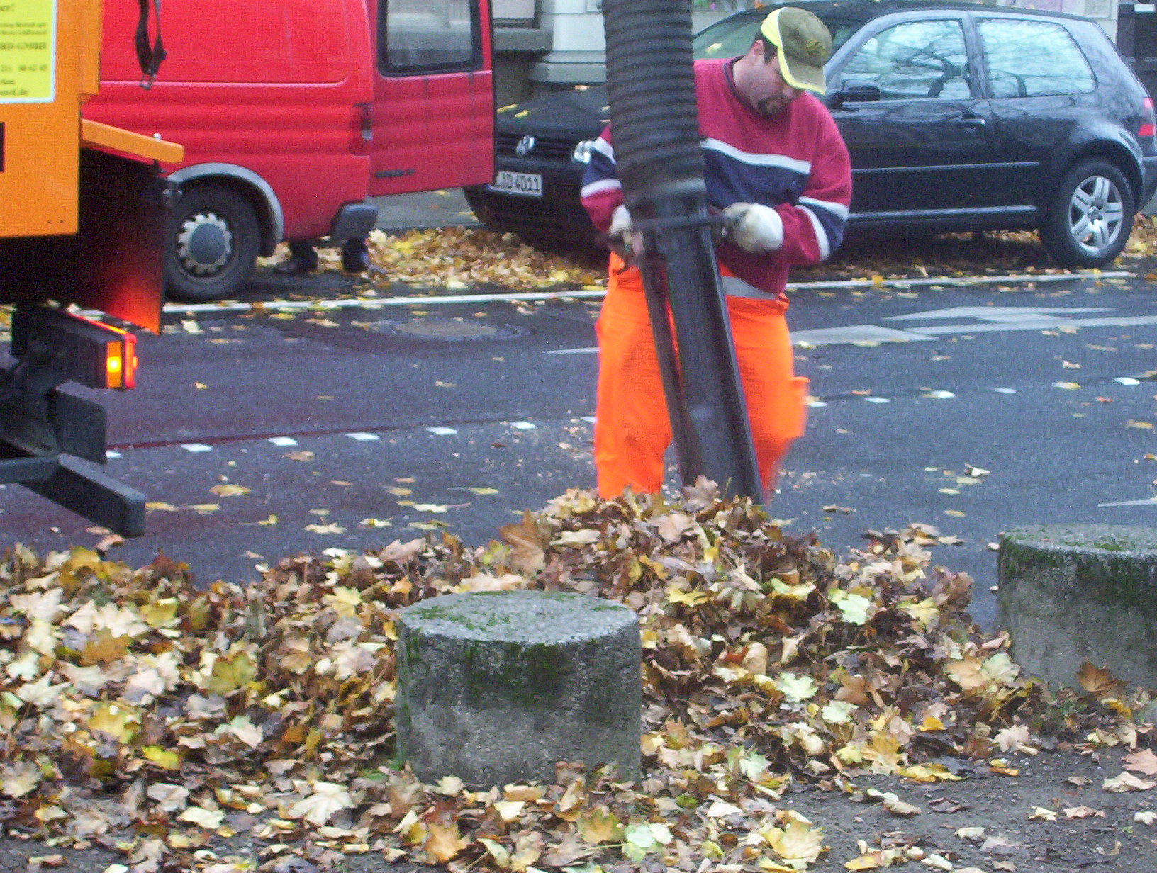 "That's an ecological truck!" – This photo was taken in Aachen, Germany in the autumn of 2005. It shows a street sweeper truck which can suck in fallen leaves.